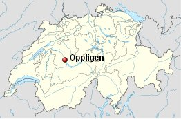 Map of Oppligen, Switzerland